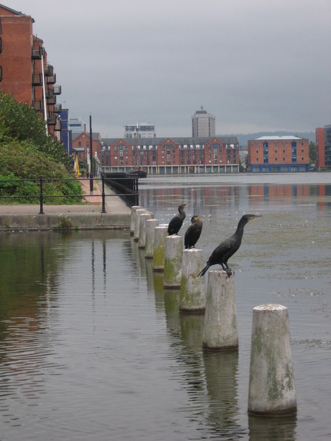 Residents of Bute East Dock